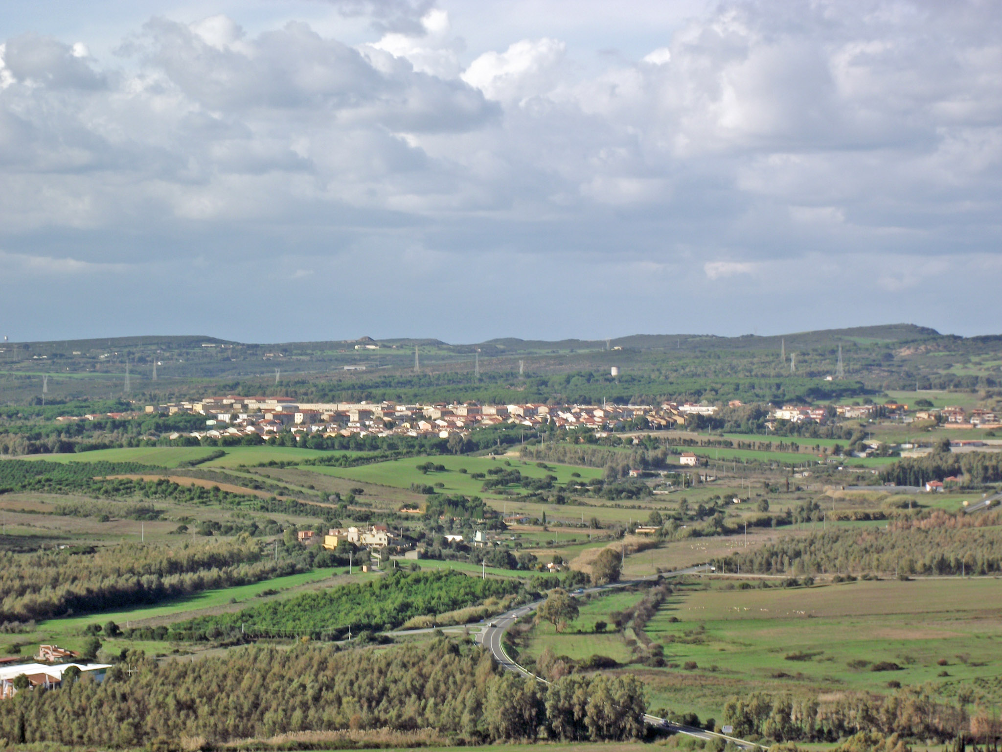 View of Cortoghiana from Monte Sirai, in the suburbs of Carbonia, Sardinia, Italy